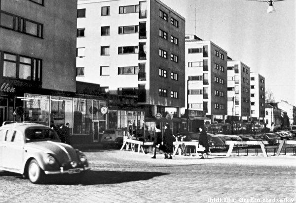 Örebro city, southern part